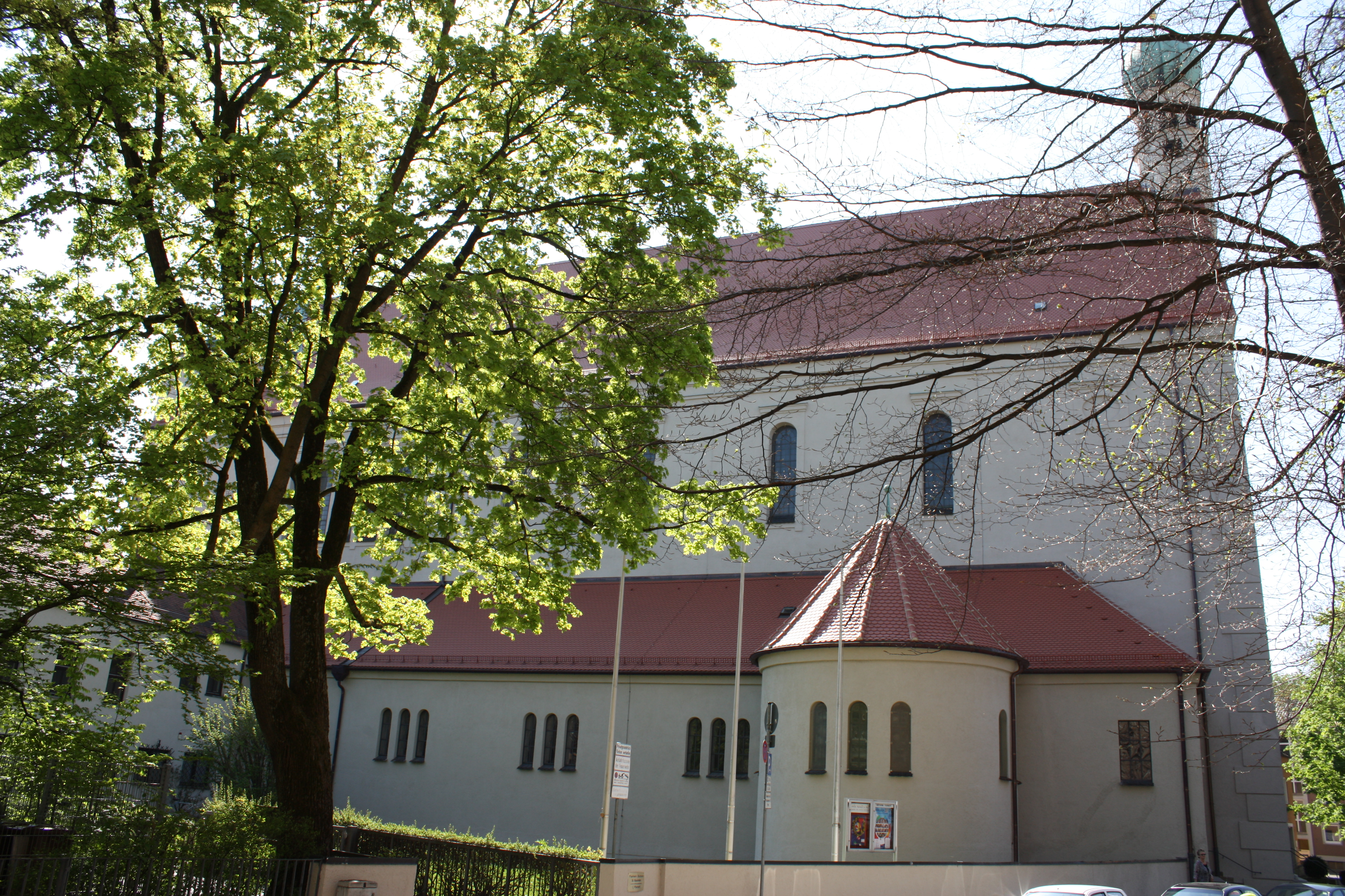 St. Maximilian in Augsburg - Google Maps - Google Earth